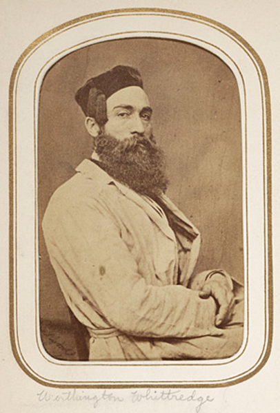 Worthington Whittredge